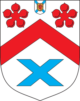 Arms of Baronet Agnew of Lochnaw Argent a chevron between in chief two fraises Gules and in base a saltire couped Azure. A badge of a Baronet of Nova Scotia.